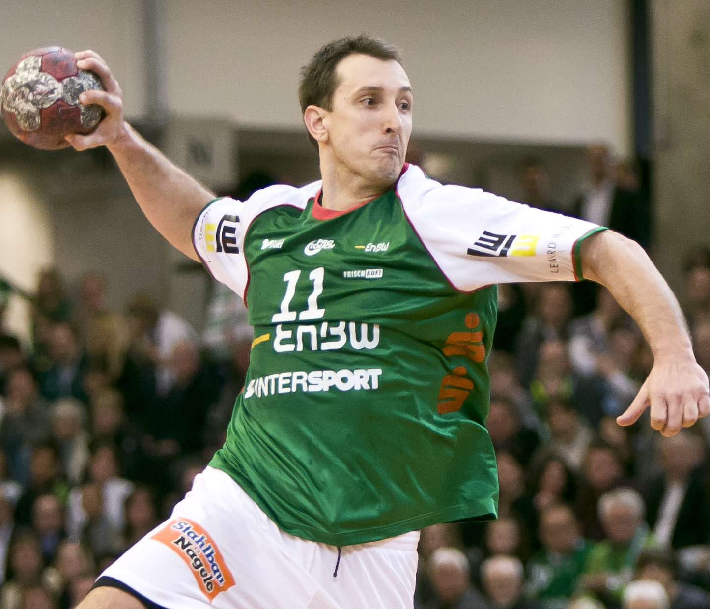 Drasko Mrvaljevic at EHF-Cup quarter-final 2010/2011 Frisch Auf Göppingen - RK Gorenje Velenje